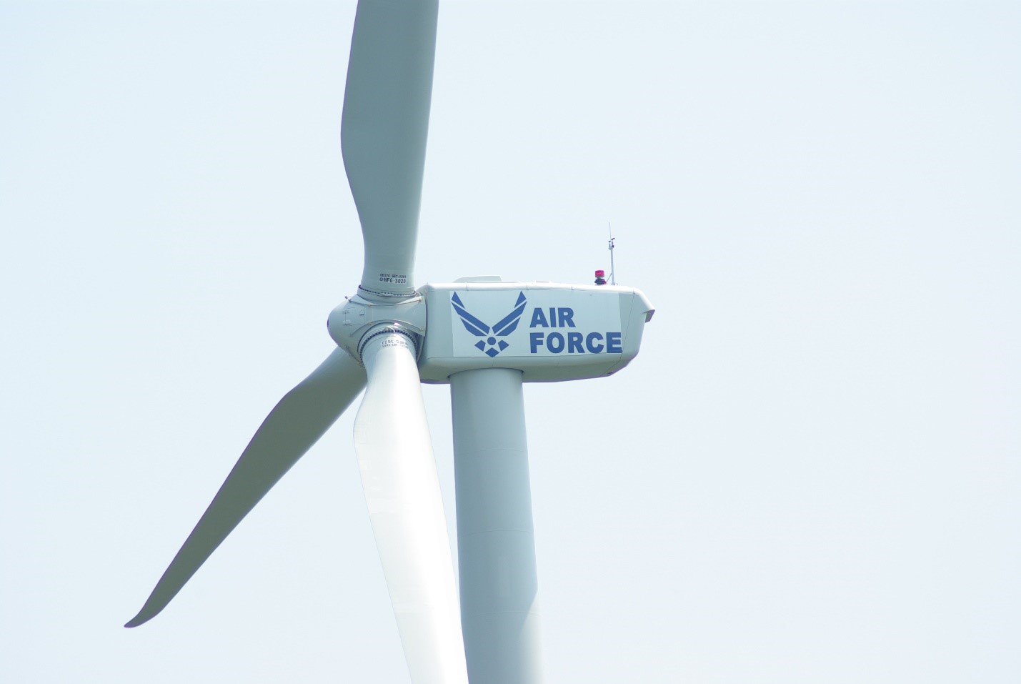 A close-up view of one of the Air Force's two new wind turbines at the Massachusetts Military Reservation in Cape Cod, Mass. The 1.5 megawatt wind turbines, in addition to an existing turbine, were built to offset electrical costs for powering numerous groundwater cleanup systems at the reservation. The turbines will pay for all the Air Force's electric needs for groundwater remediation at MMR, saving more than $1.5 million per year. They will also offset emissions generated by fossil-fueled power plants, reducing the Air Force's carbon footprint.